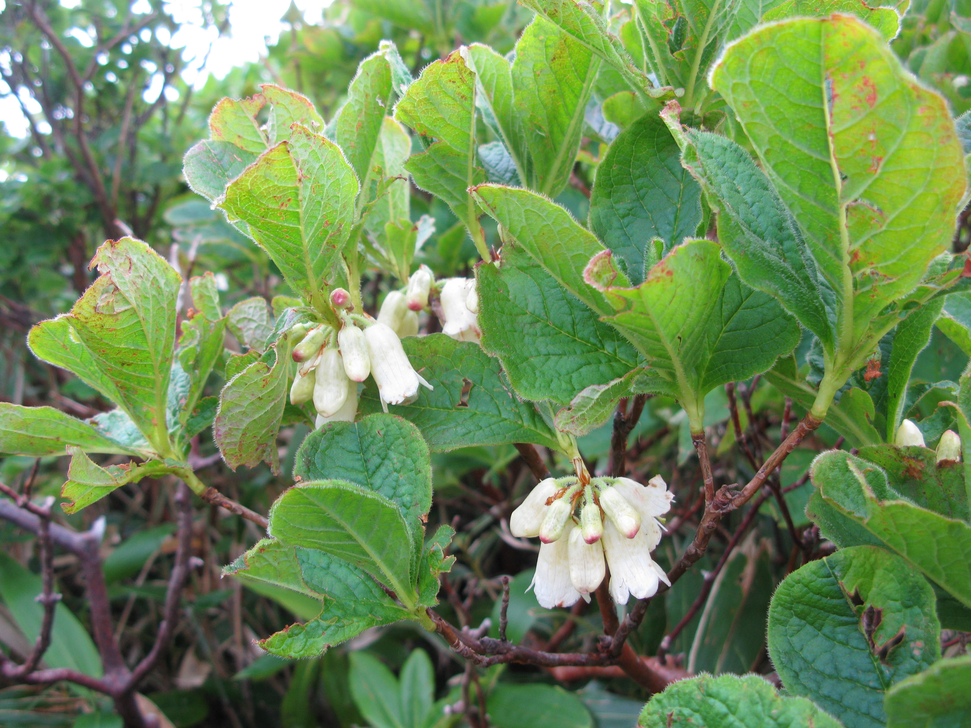 Rhododendron nipponicum, Aizu area, Fukushima pref., Japan